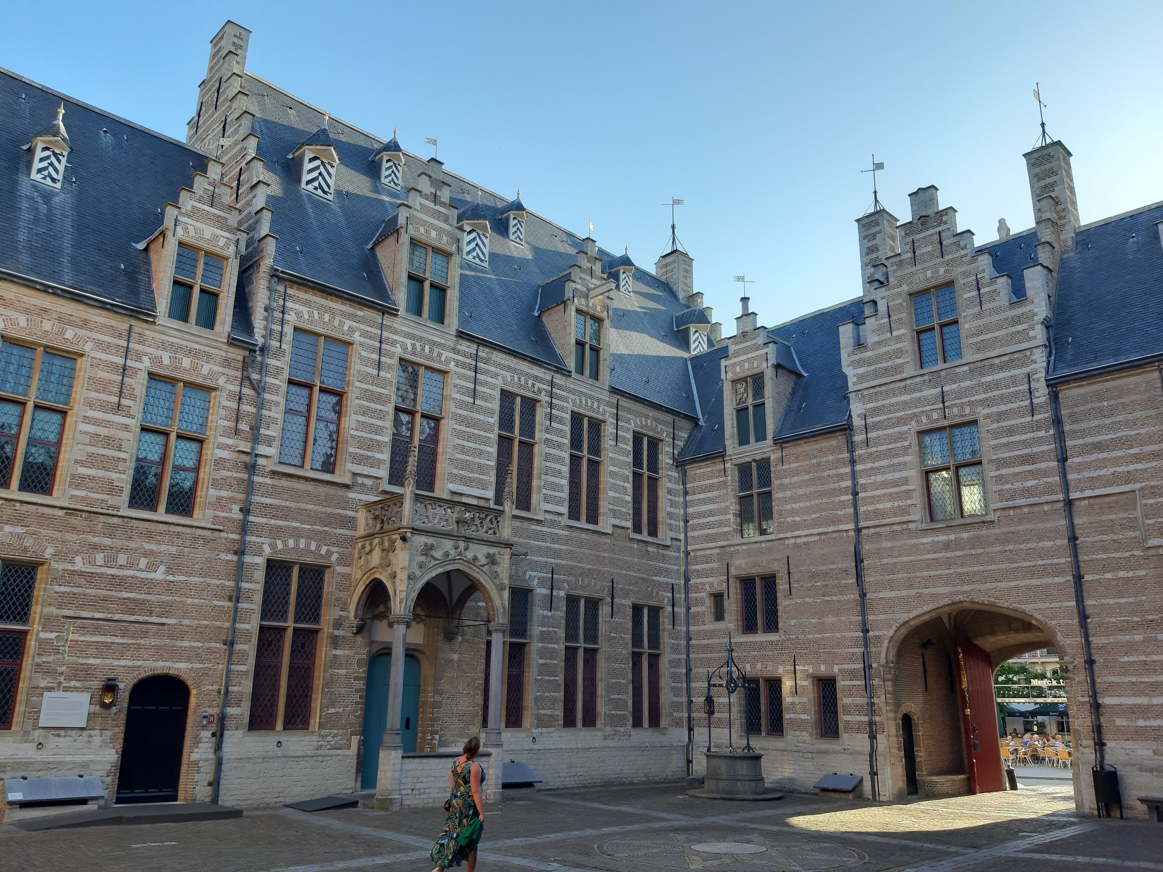 Markiezenhof, Bergen op Zoom